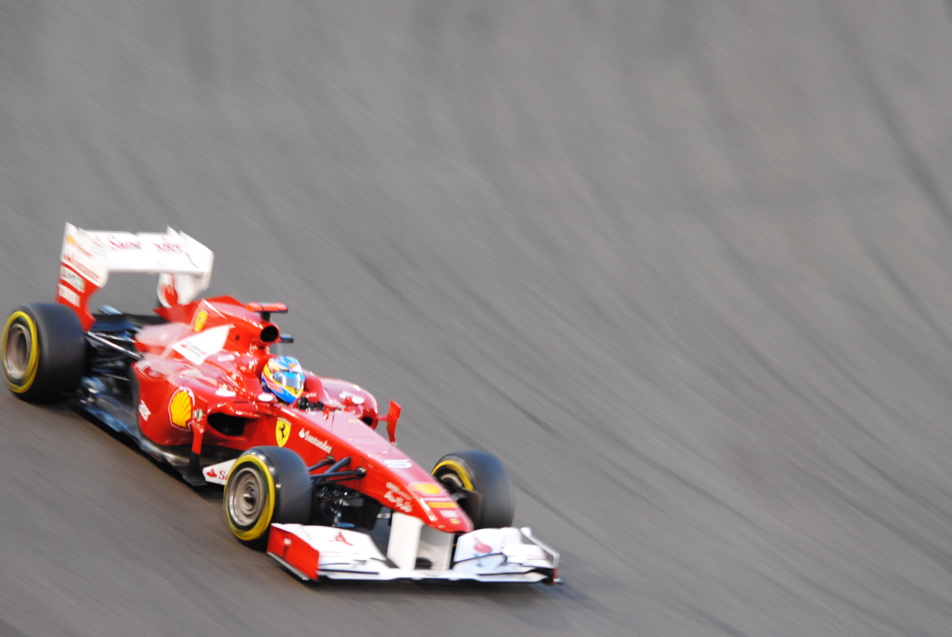 Alonso in 2011